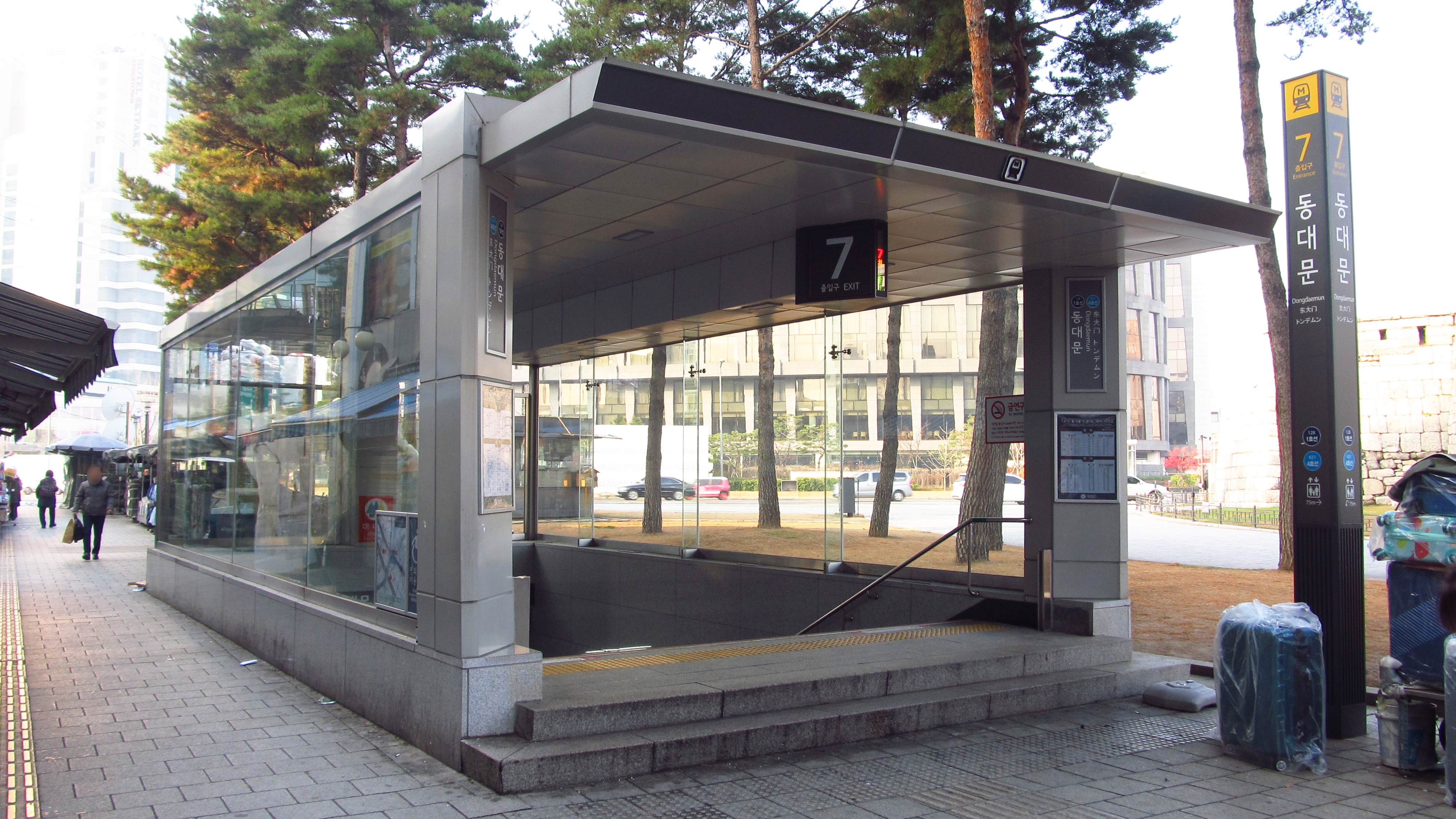 The no.7 entrance to Dongdaemun Station on the Seoul Metro Line 1 and Line 4 in Jongno-gu, Seoul, Republic of Korea(South Korea)